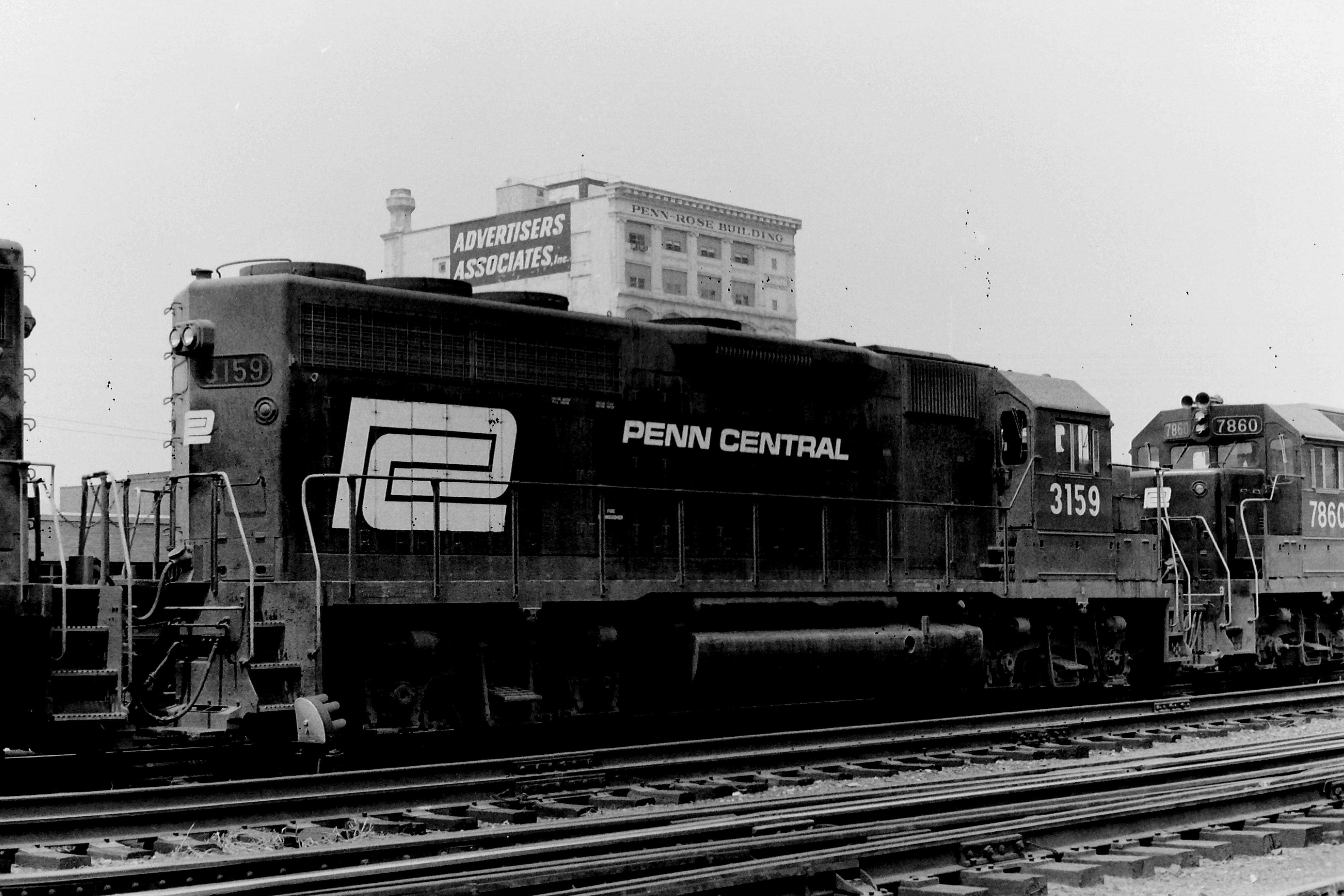 Penn Central EMD GP40 #3159 passing Penn Central station, Pittsburgh, 7/70.